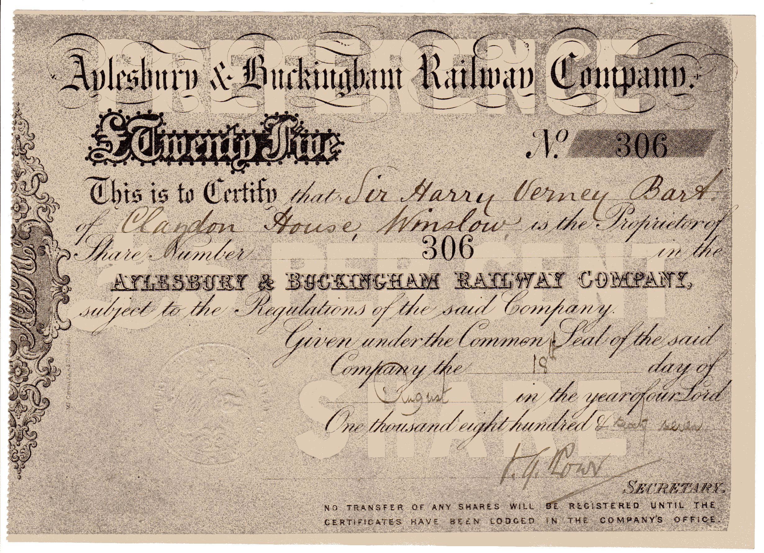 Share of the Ayesbury & Buckingham Railway Company, issued 18. August 1867